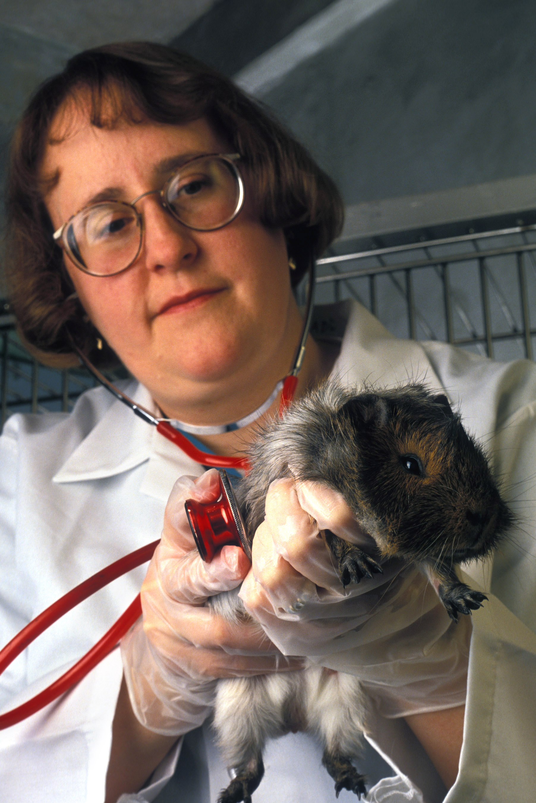 Veterinary medical officer Carole Bolin examines a guinea pig for general condition and pulmonary health. These animals are being used to understand the pulmonary bleeding seen in the Nicaraguan outbreak of leptospirosis.